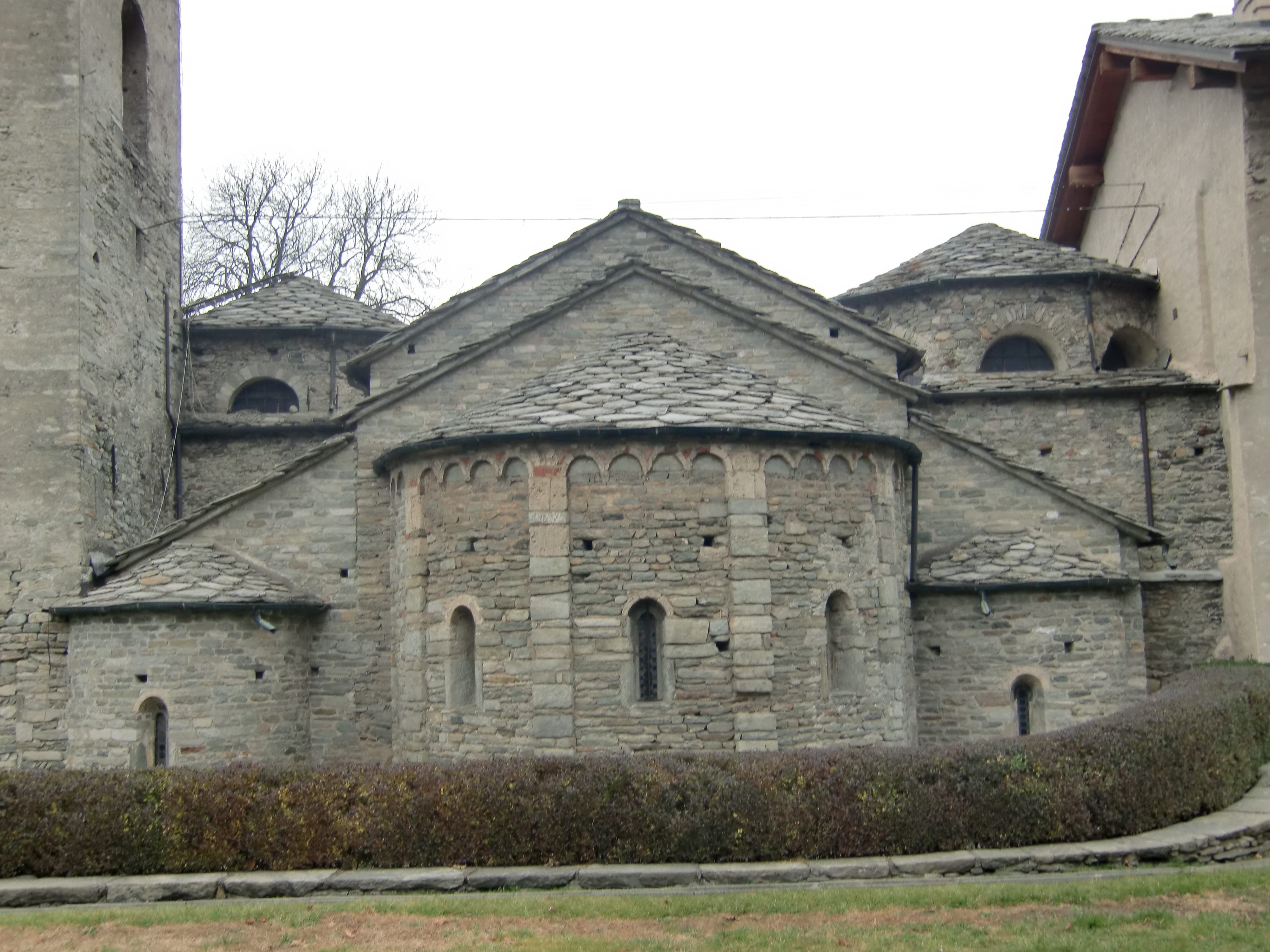 Arnad (Aosta Valley), church of San Martino, Apses, Romanesque architecture, (XI century)